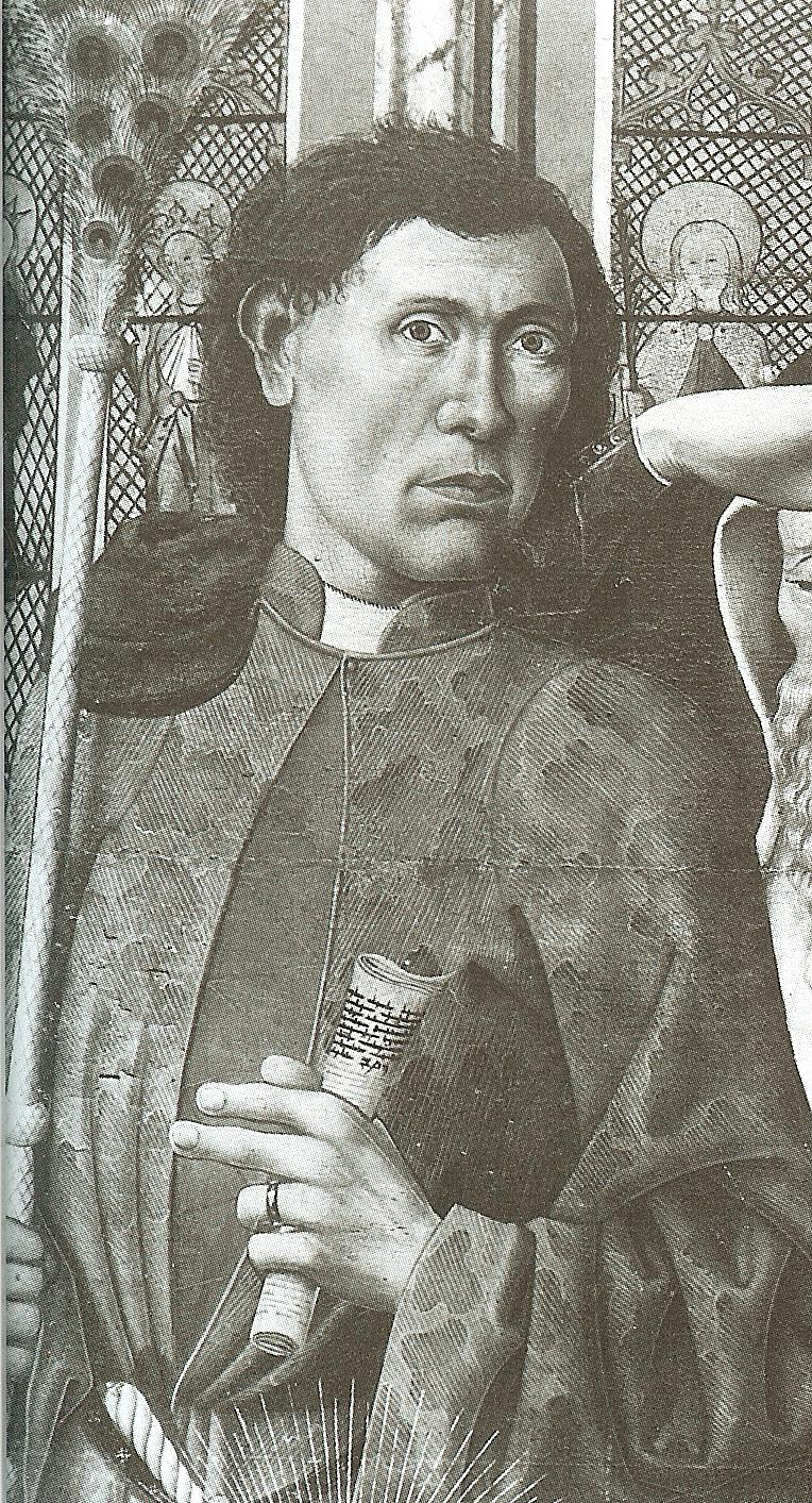 Detail from Bernt Notke's Gregorsmese, showing a lay man, probably Heinrich Greverade the Younger